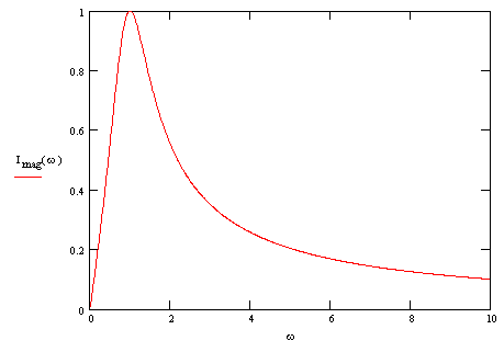 Created by Madhu (in MathCad) and realeased under the Public Domain